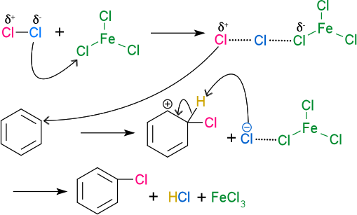 Mechanism of the chloration of benzene